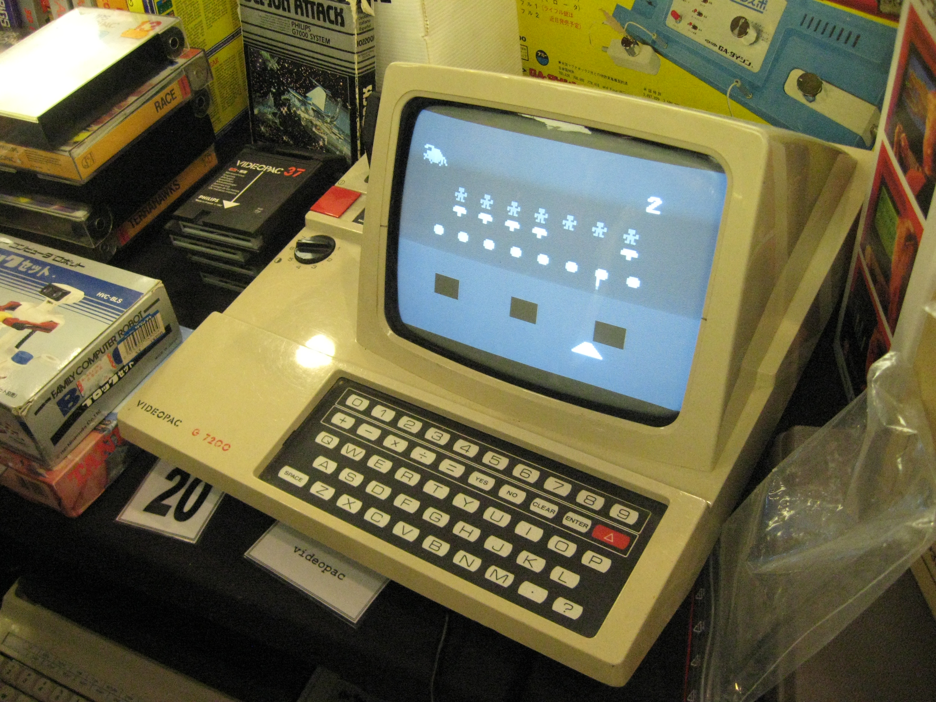 Philips Videopac 7200